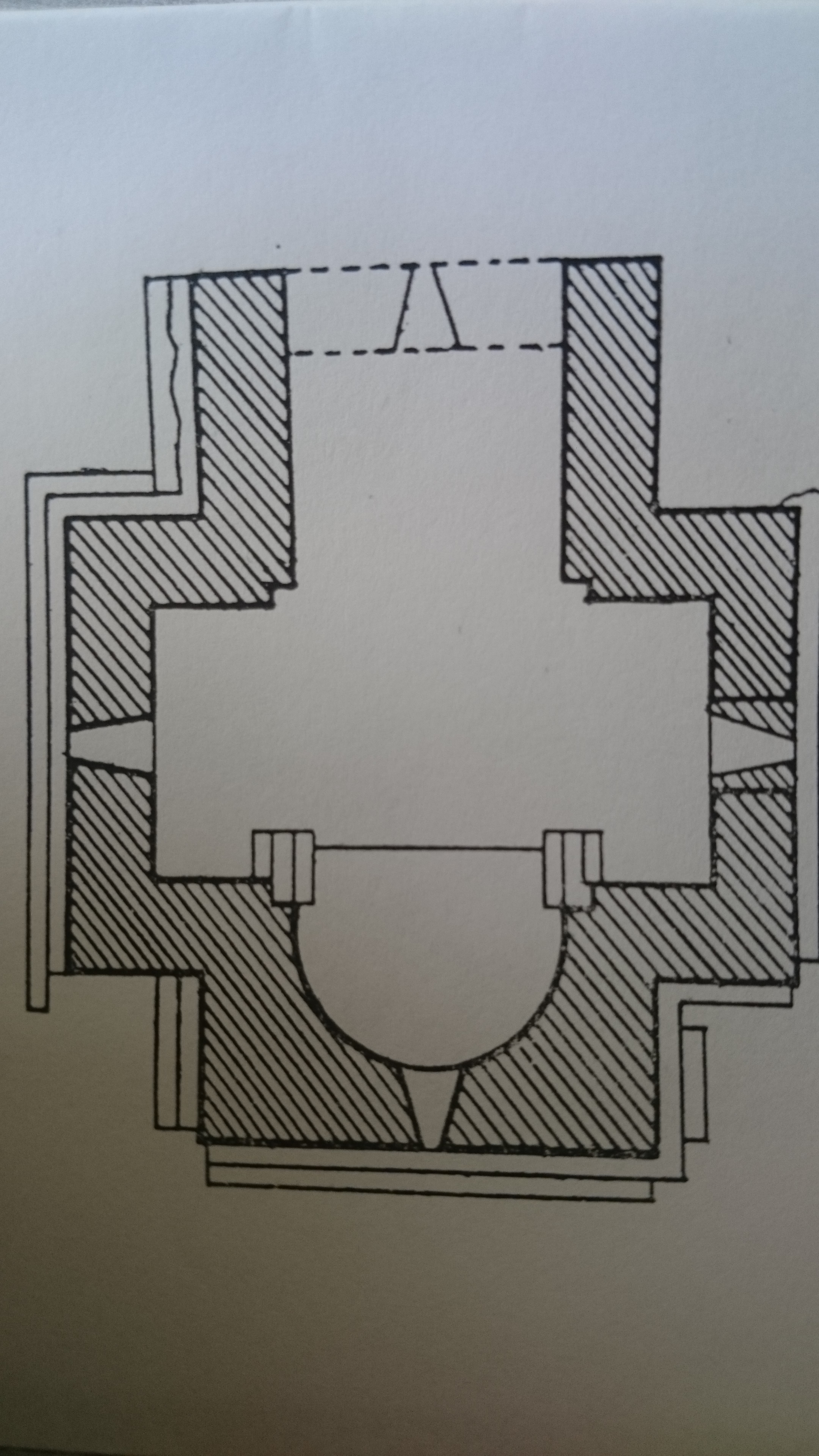 Նոր Կյանք գյուղ֊Գրիգոր Լուսավորիչ եկեղեցու հատակագիծը